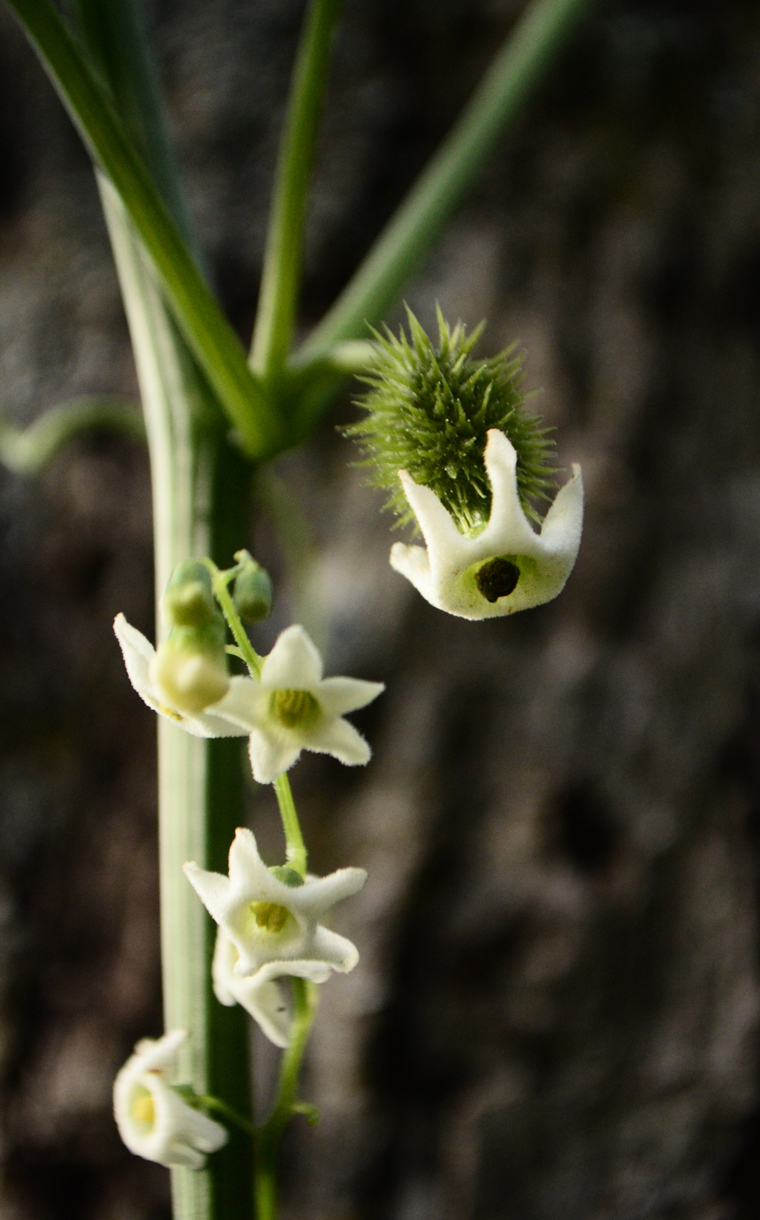 Marah horridus flowers and developing fruit